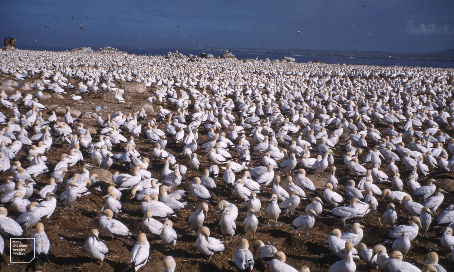 Guano harvest, South Africa